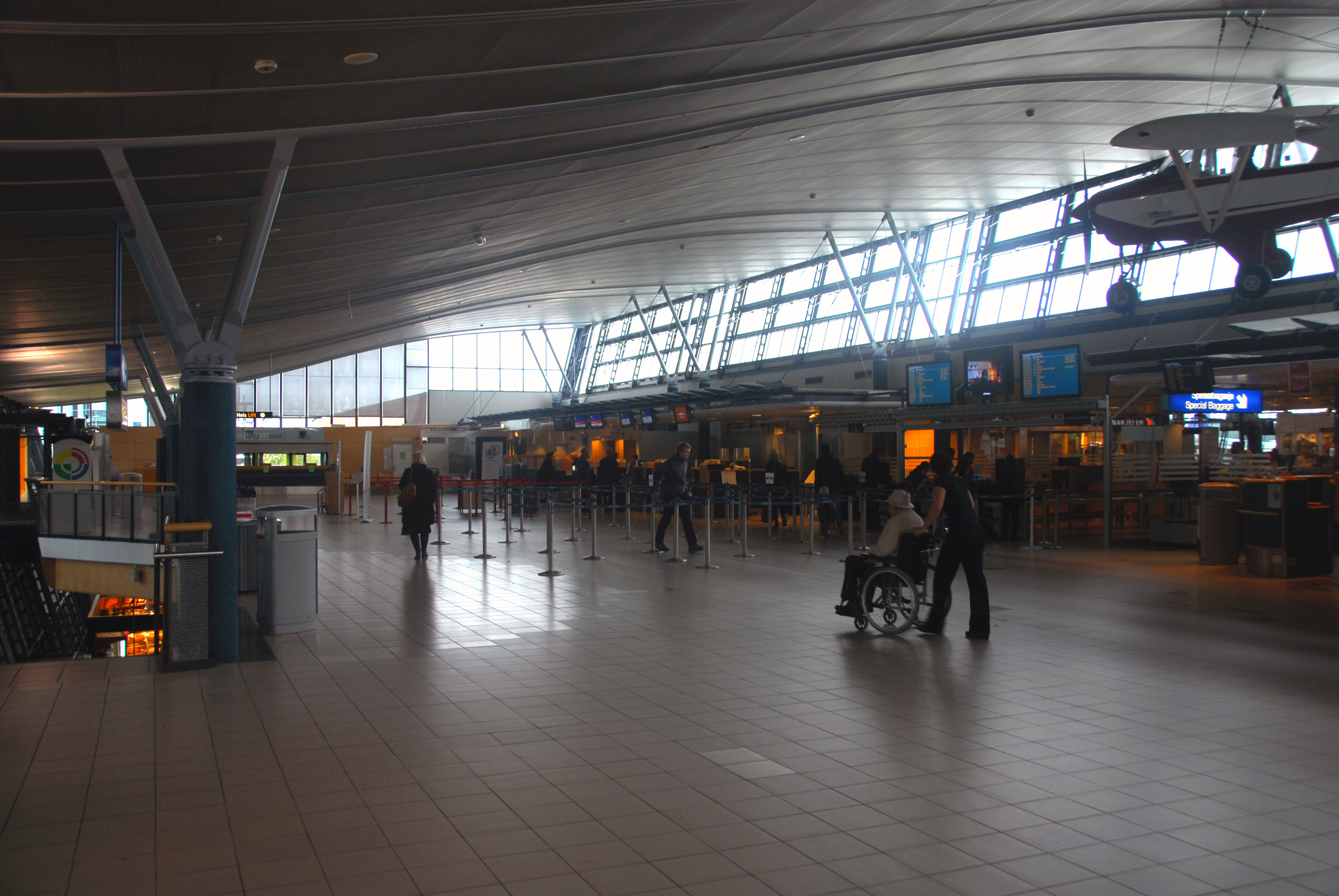 Part of the check-in of Terminal A at Trondheim Airport, Værnes